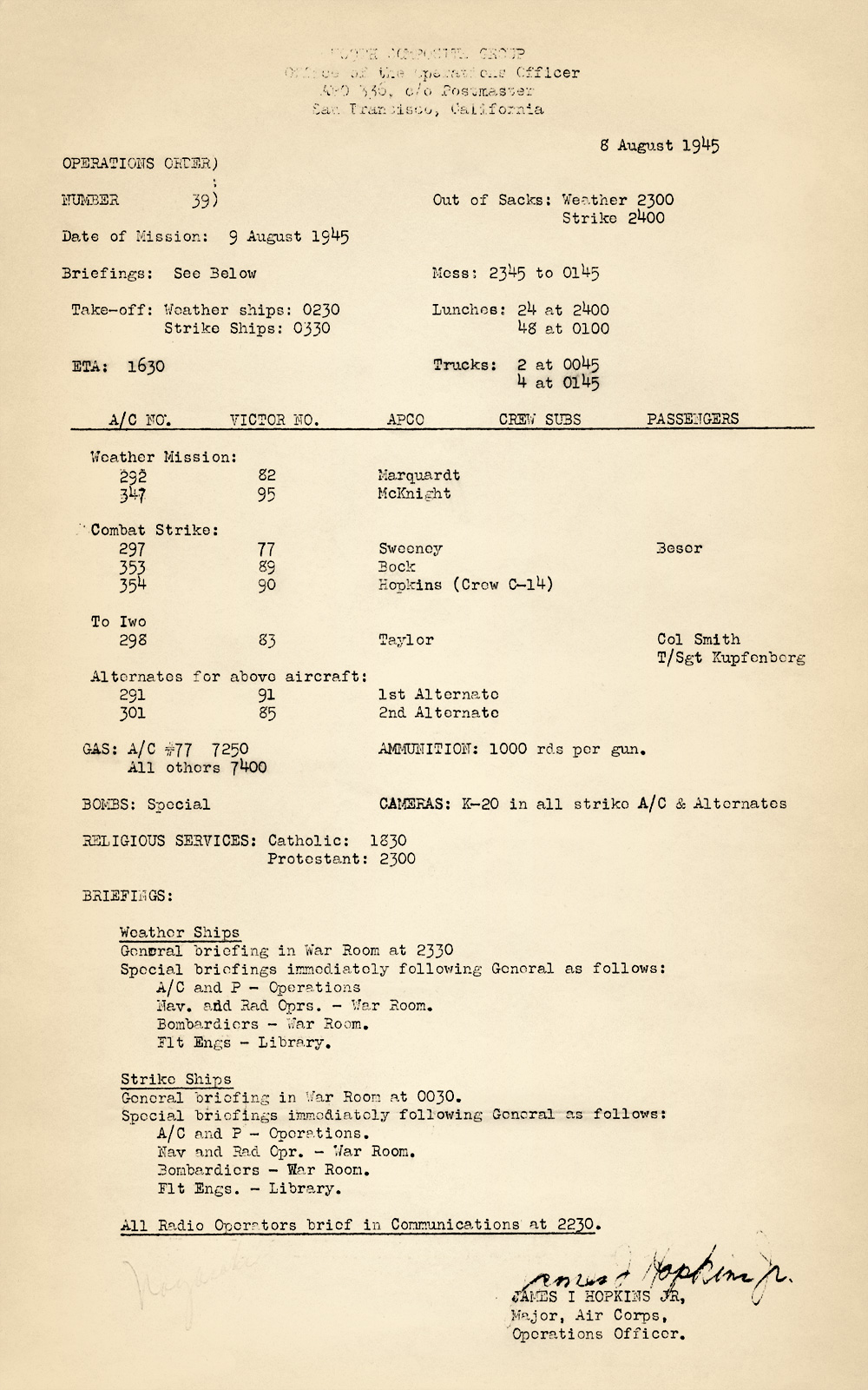 Strike order for the Nagasaki bombing, as posted on Tinian Island. Photo by Harold Agnew (as U.S. Gov't employee) 1945